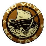 A badge of the Women’s Tax Resistance League, with the slogan “No vote, no tax”, as designed by its author Margaret Sargant Florence.